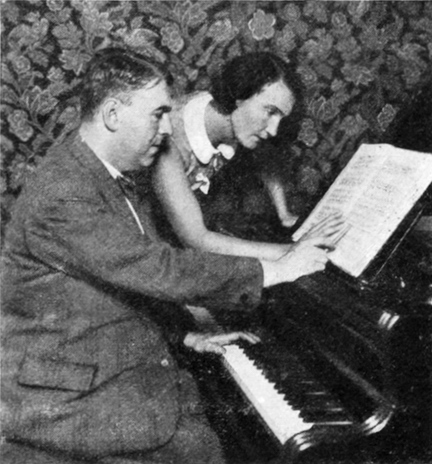 Composer Ervín Schulhoff (1894–1942) and dancer Milča Mayerová (1901-1977), ca 1931